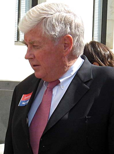 Jack Kemp at DC Vote rally on Capitol Hill